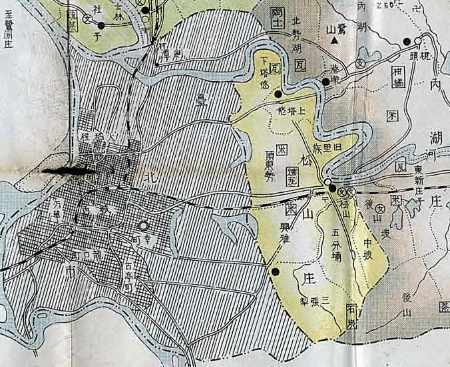 Map of Matsuyama Village, Shichisei District, Taihoku in 1932